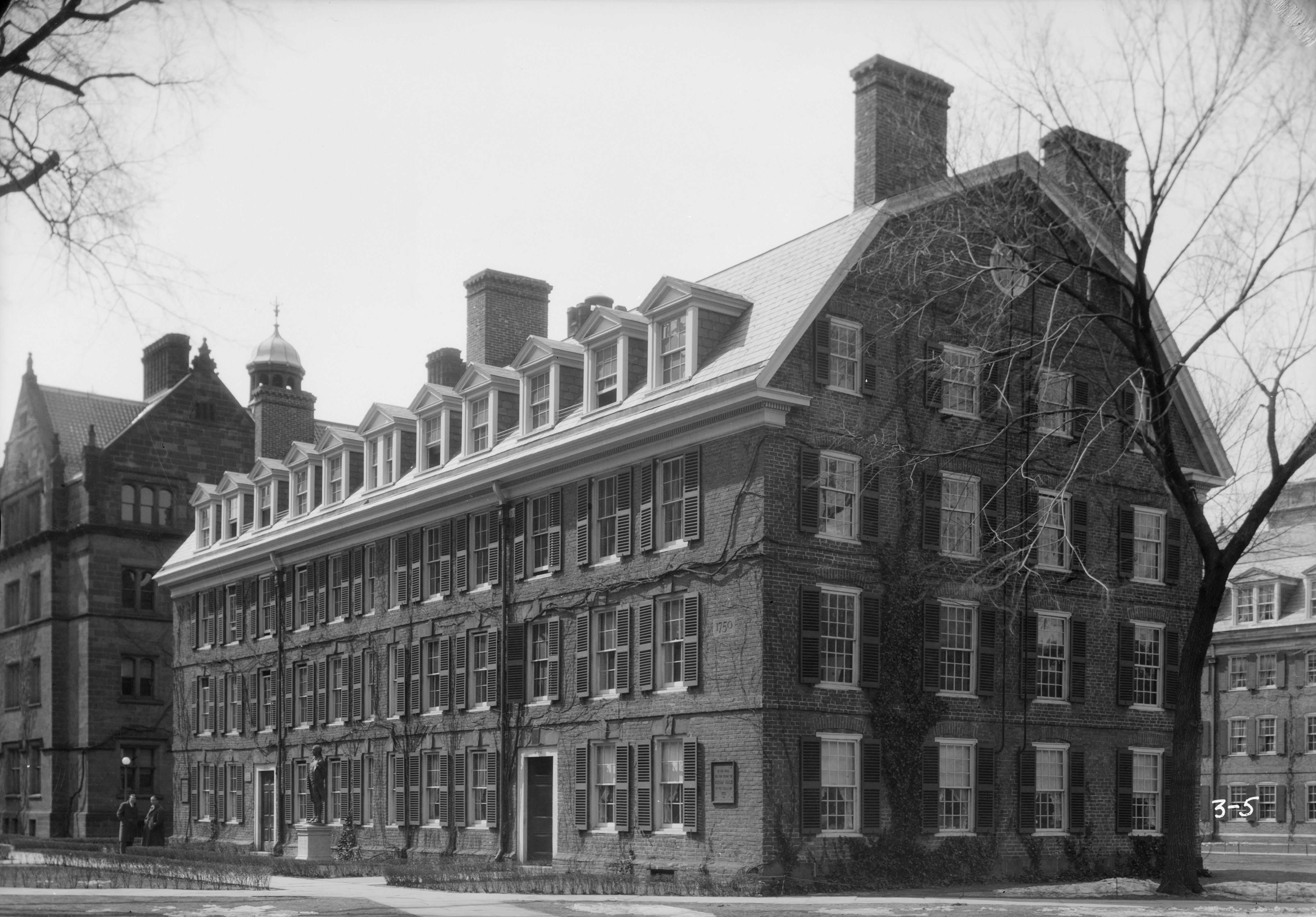 1. Historic American Buildings Survey Joseph C. Berlepsch, Photographer March 23, 1934 NORTH EAST ELEVATION (FRONT) - Yale University, Connecticut Hall, New Haven, New Haven County, CT